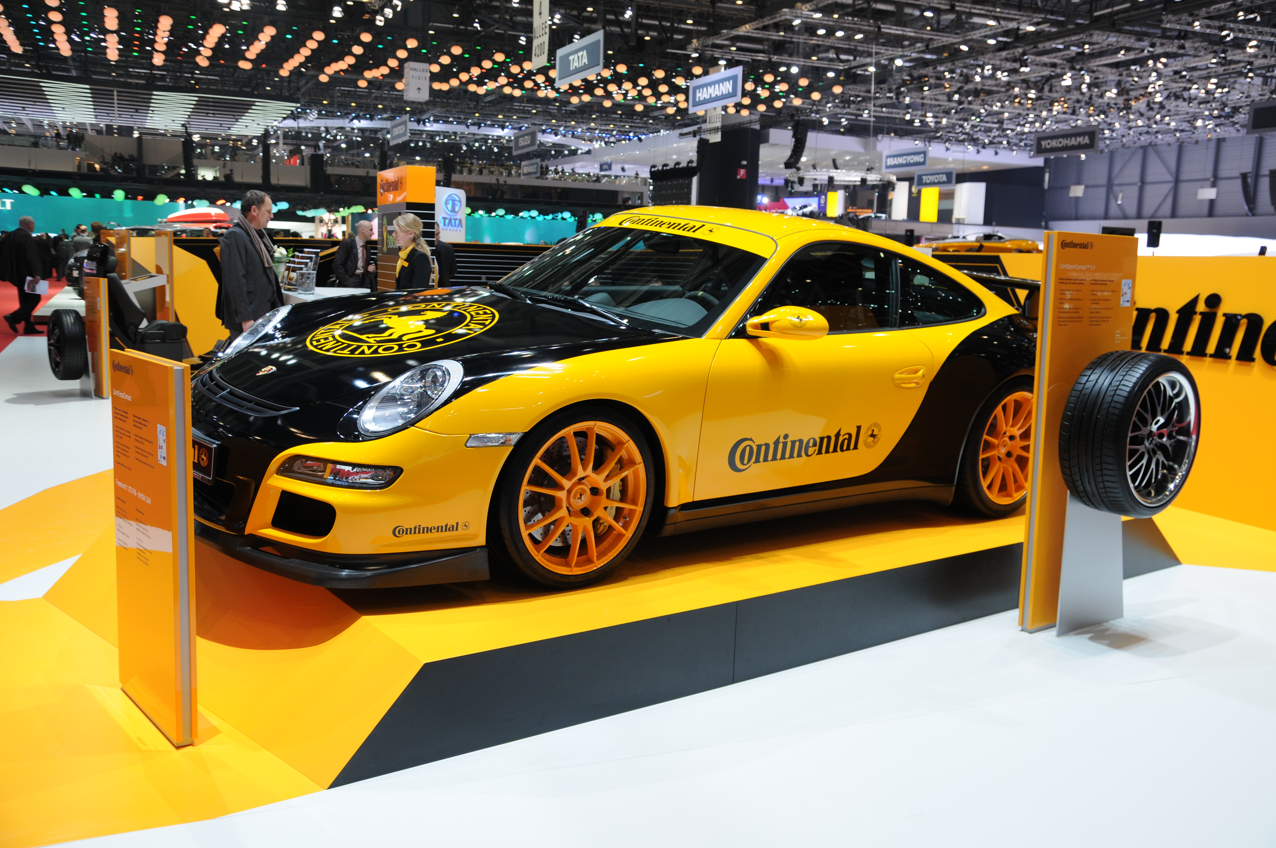 Geneva Motor Show 2013 (photos taken on the first press day)